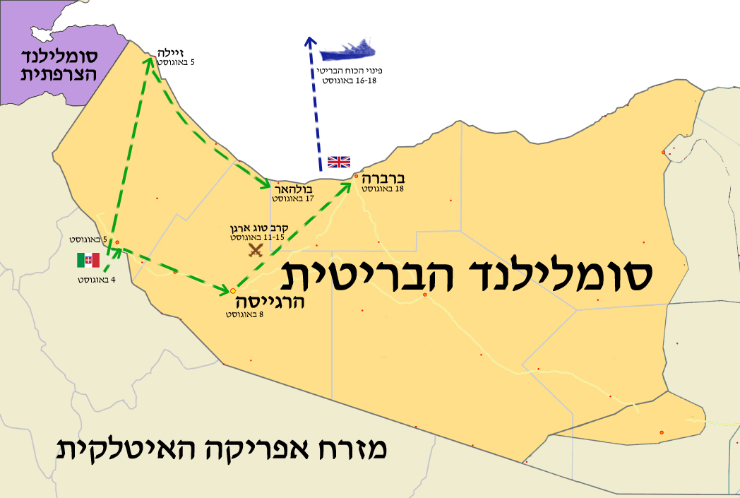 Map of the Republic of Somaliland